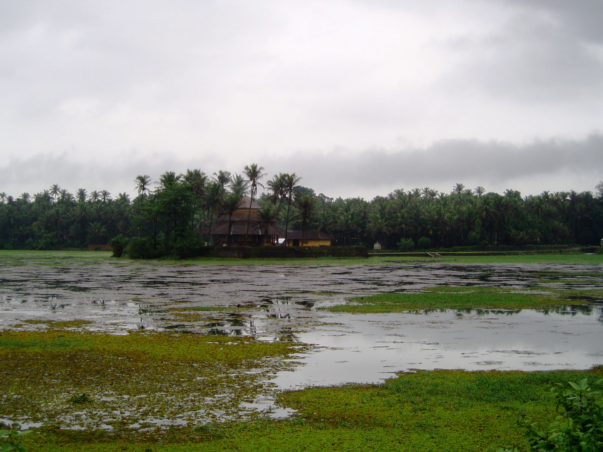 A Jain temple at the center of pond in karkala near Varanga. Karkala is a place in Udupi district, Karnataka, India and is located about 30km from the city Udupi and about 400km from Bangalore.